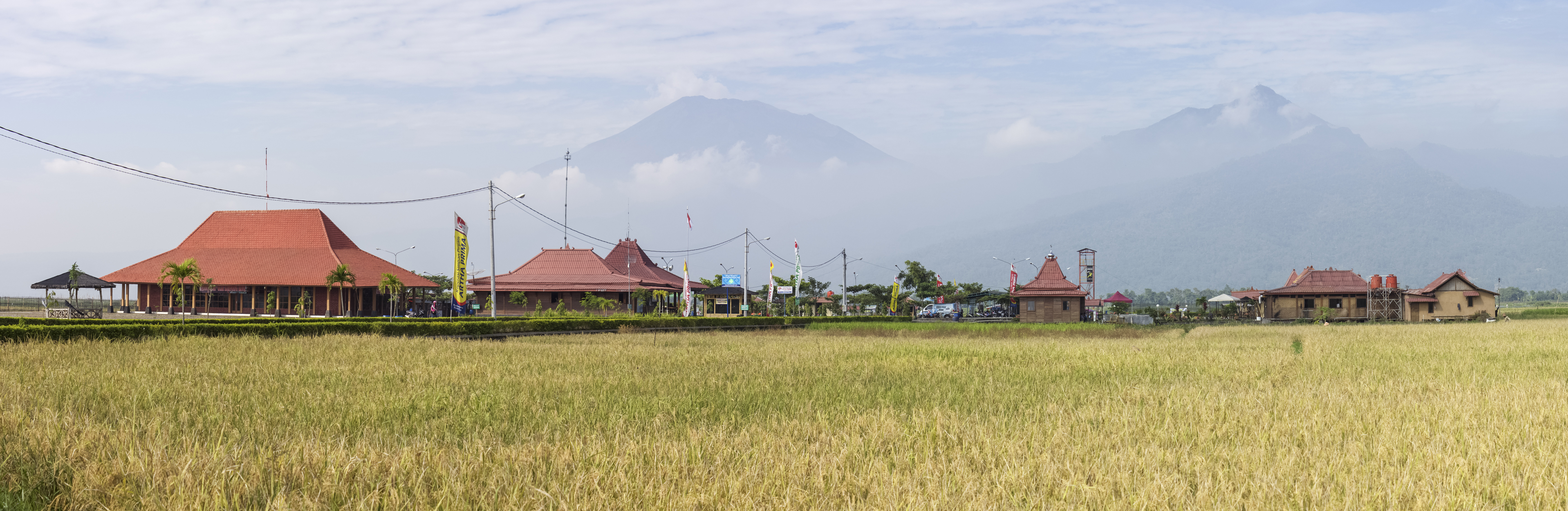 Kampung Rawa, from a distance. This shows the entire extent of the tourist attraction. Left to right: crafts centre, hall, pendopo, waiting area for bus drivers, mushola (prayer room), restaurant